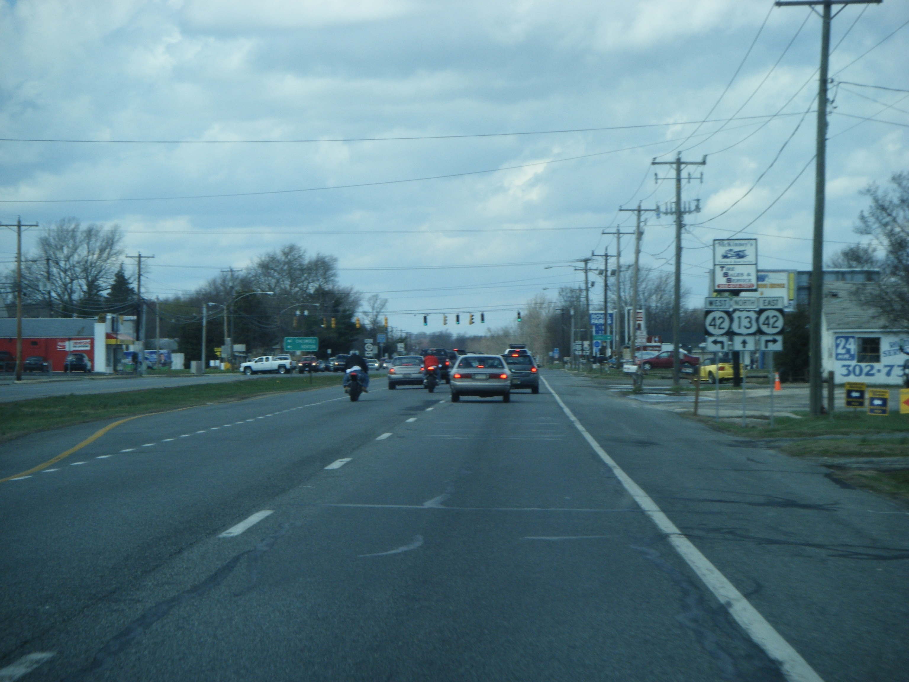 Northbound U.S. Route 13 (Dupont Highway) approaching the intersection with Delaware Route 42 in Cheswold, Delaware